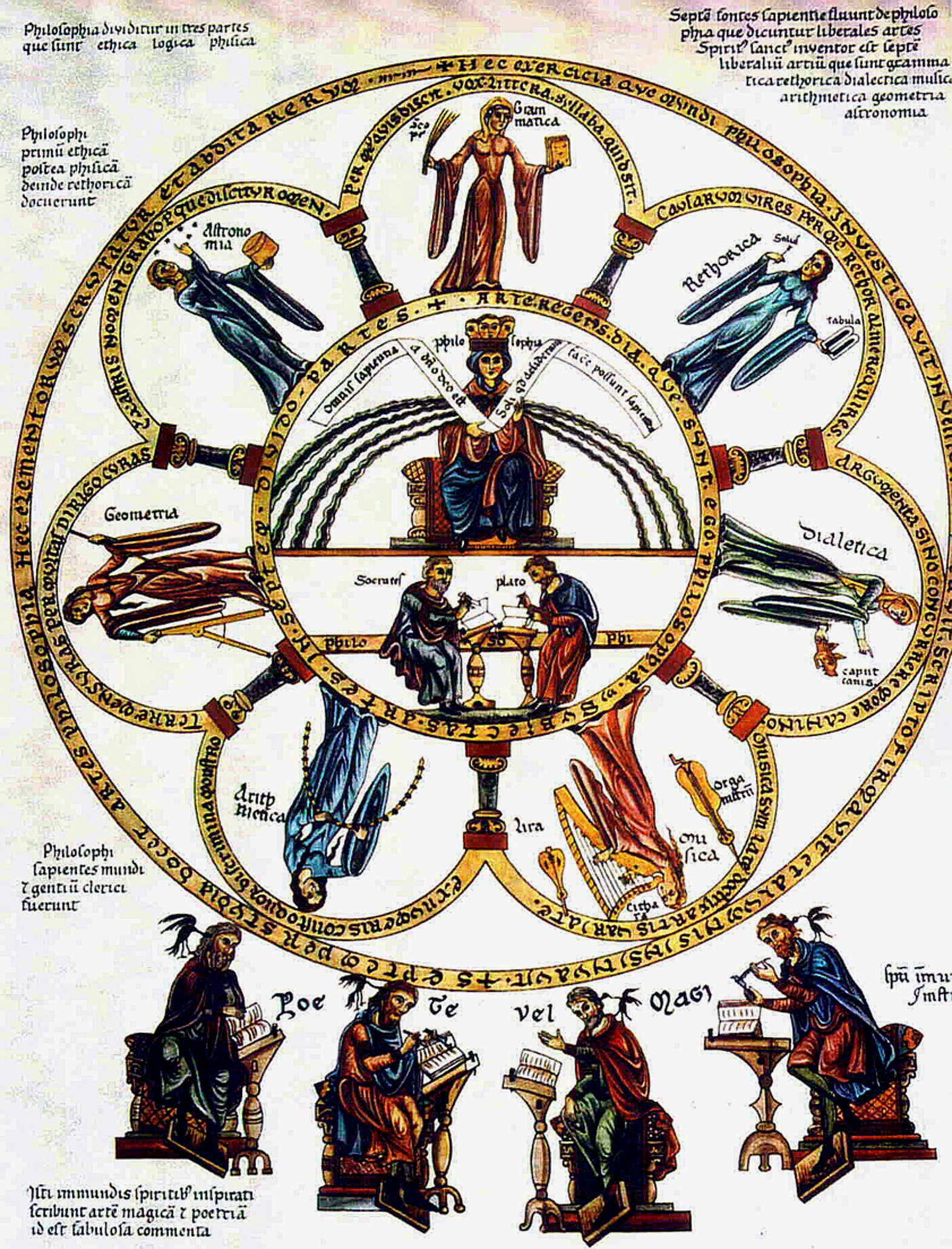 Septem artes liberales from "Hortus deliciarum" by Herrad von Landsberg (about 1180)